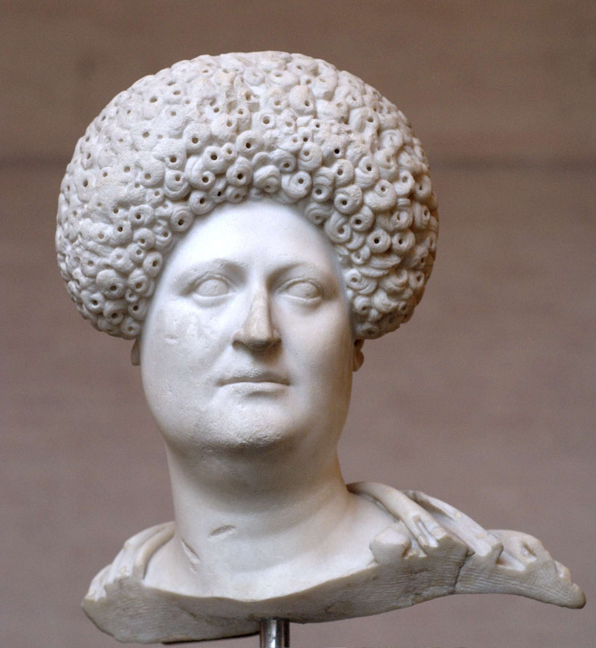 Bust of a Roman woman, ca. 80 CE. Raised hairstyles, made by mixing stranger and own hair, were very common during the Flavian dynasty (Vespasian, Titus, Domitian: 69–96 CE) at the court and outside. The pointed nose and double chin indicate a realistic design of the portrait, which points out the republican time and comes in contradiction with the idealization of the early empire art.